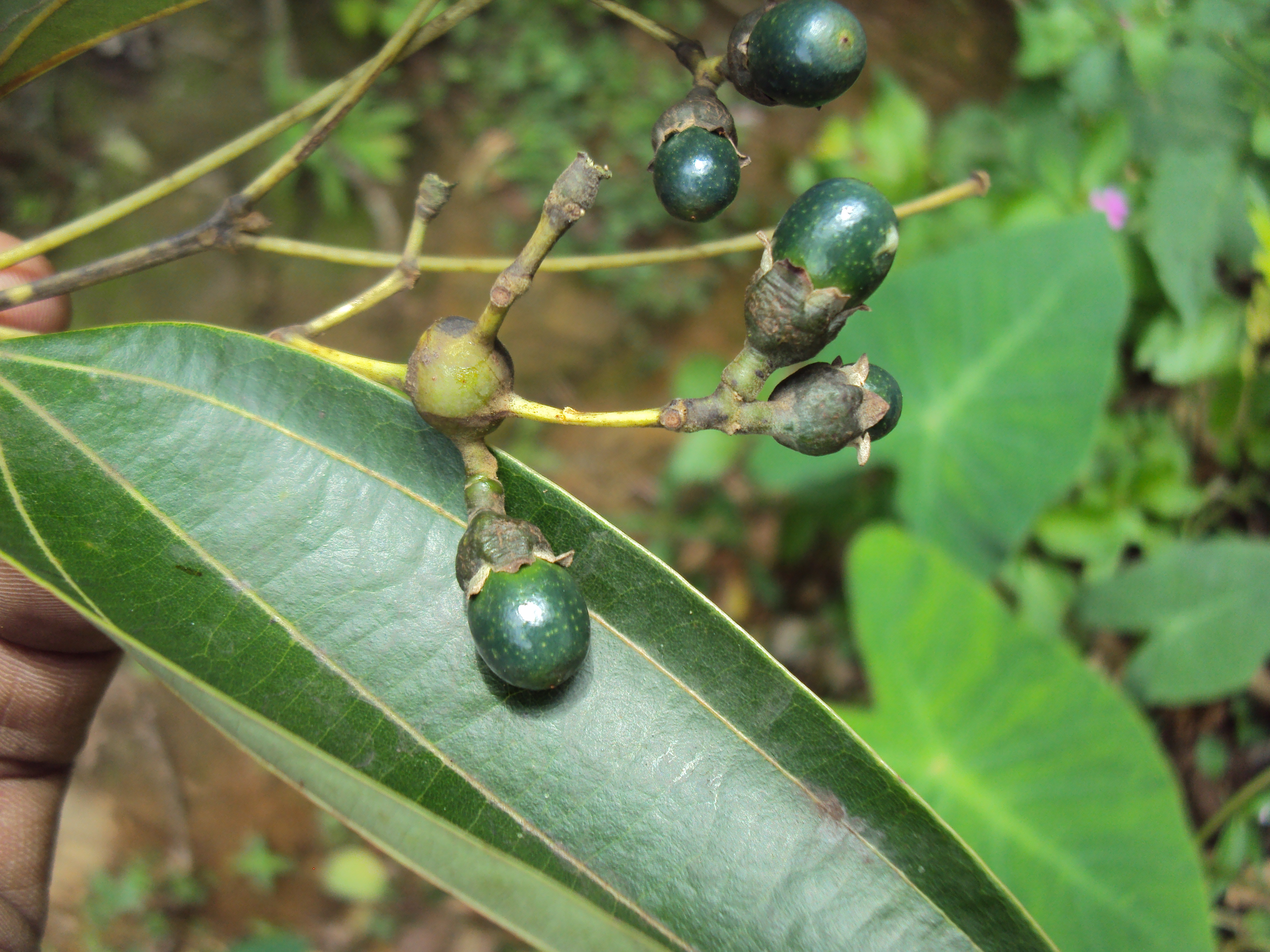 Photos from 2014 by Vinayaraj